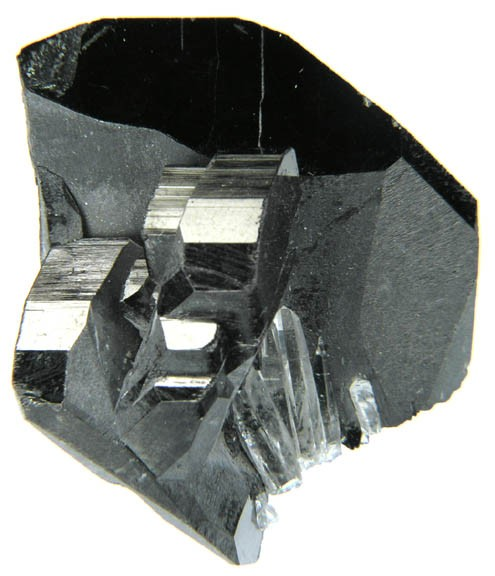 Ferberite Locality: Tazna Mine (Tasna Mine; Tazna-Rosario Mine), Cerro Tazna, Atocha-Quechisla District, Nor Chichas Province, Potosí Department, Bolivia (Locality at ) Size: 4.3 x 3.7 x 3.5 cm. This was one of the very few matrix pieces from the recent find of these amazing specimens. This is an eloquent piece featuring several sharp, lustrous, jet black blades of Ferberite associated with a few gemmy Quartz crystals. There are several crystals on the front of the specimen which are actually a multi-twinned crystal group.